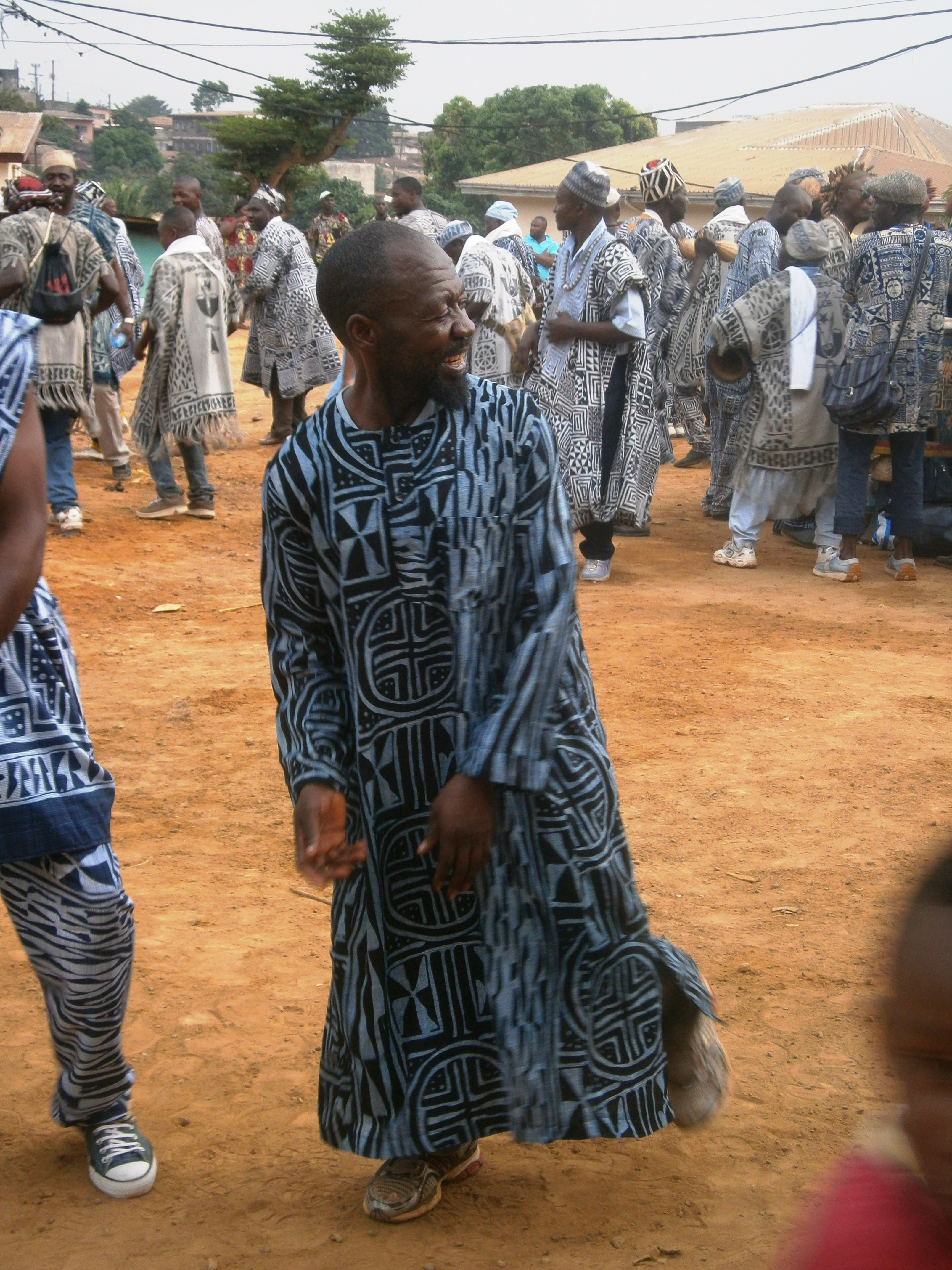 Peuple Bamoun dans une cérémonie de funéraille This is an image of Cultural Fashion or Adornment from Cameroon